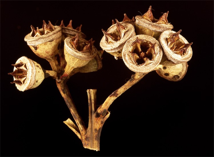 Fruit of Eucalyptus pellita at Kuranda, Queensland